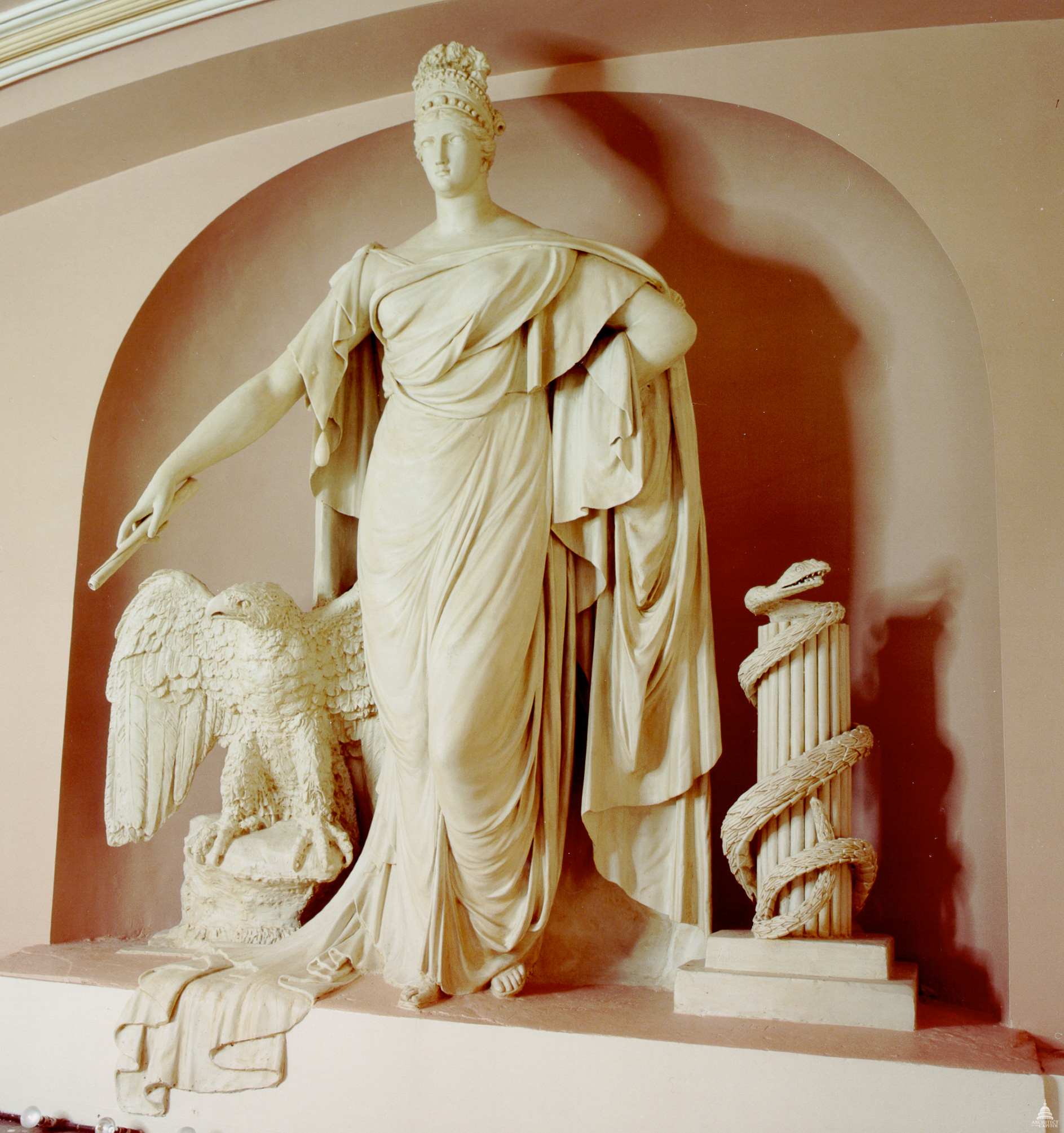 Sculpture by Enrico Causici Plaster 1817-1819 National Statuary Hall For more information visit on this sculpture located in National Statuary Hall of the U.S. Capitol visit: This official Architect of the Capitol photograph is being made available for educational, scholarly, news or personal purposes (not advertising or any other commercial use). When any of these images is used the photographic credit line should read “Architect of the Capitol.” These images may not be used in any way that would imply endorsement by the Architect of the Capitol or the United States Congress of a product, service or point of view. For more information visit